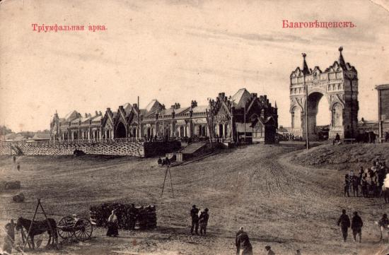 Triumphal Arch in Blagoveshchensk, in memory of the visit by HRH Csesarevich Nicholas Alexandrovich, the Heir to the Russian throne (future Csar Nicholas II) in 1891. Demolished after the Communist revolution; recently rebuilt.